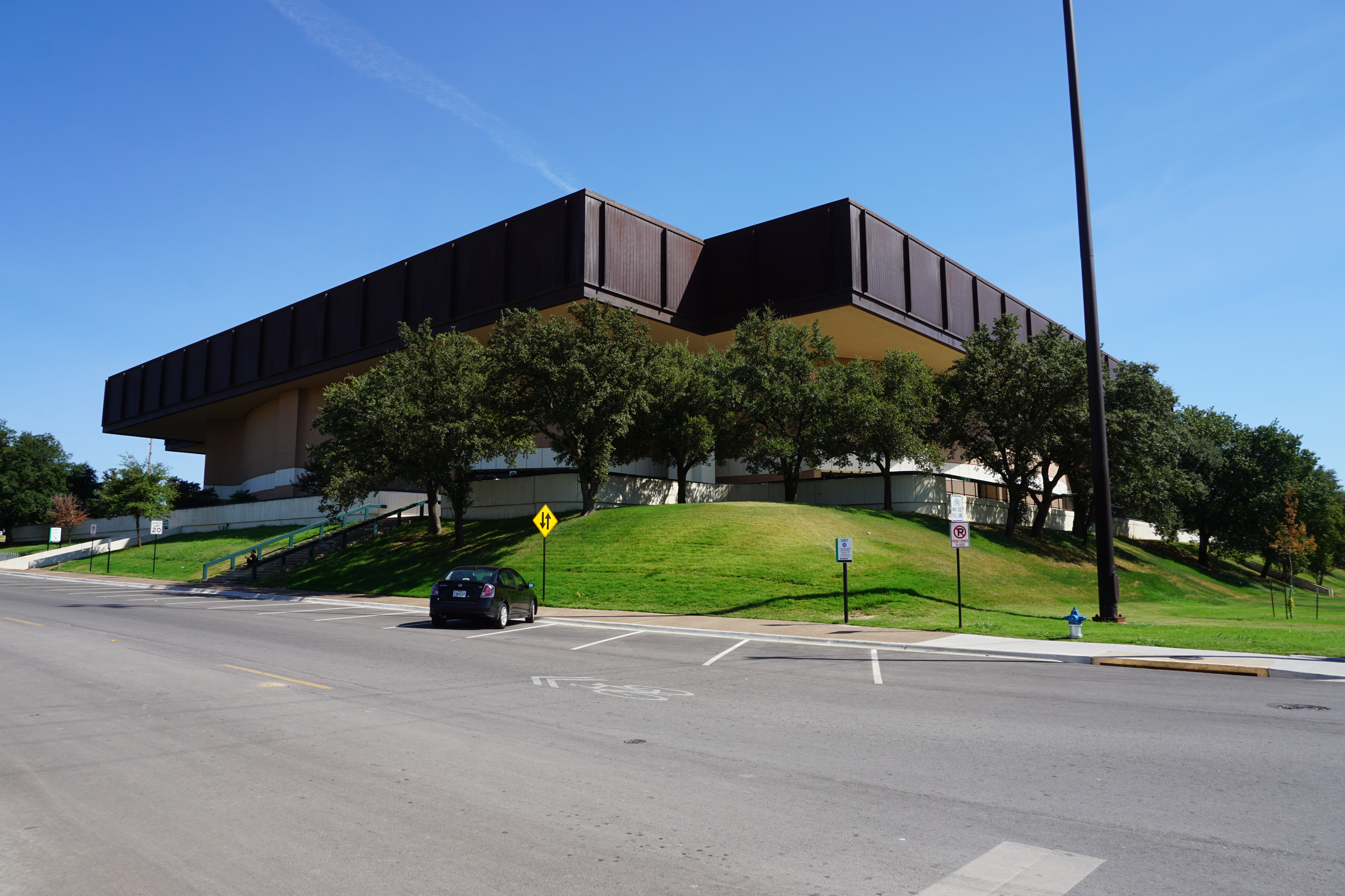 The UNT Coliseum on the campus of the University of North Texas in Denton, Texas (United States).